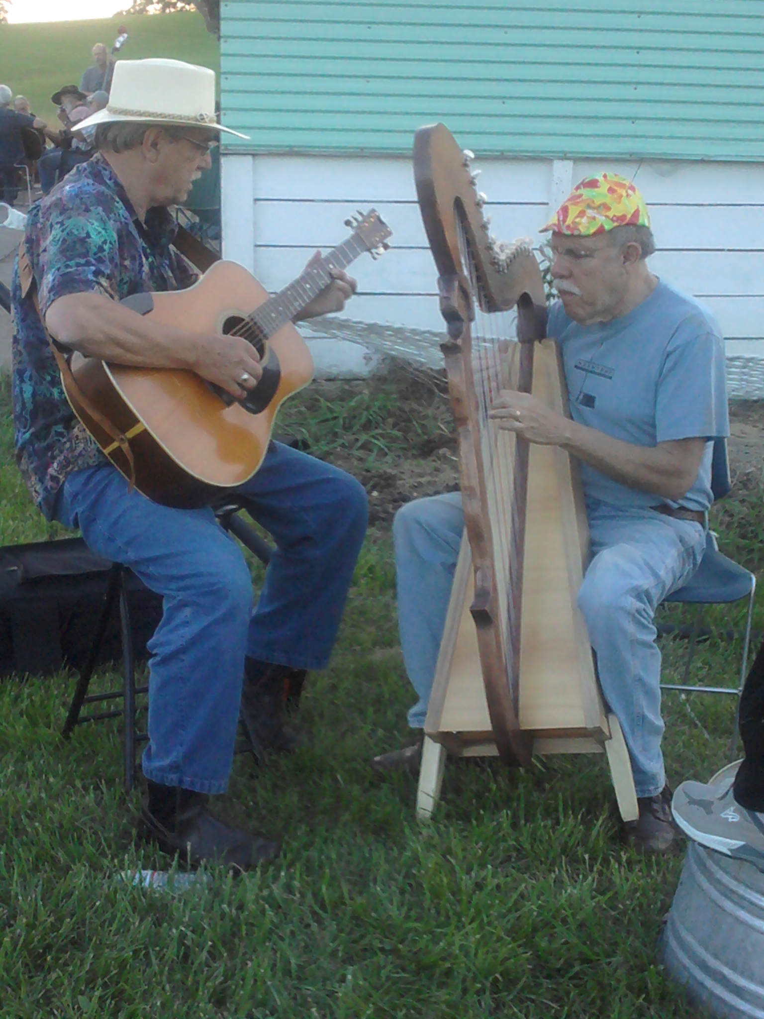 Men playing guitar and harp at Singers Glen picnic on June 23, 2012.